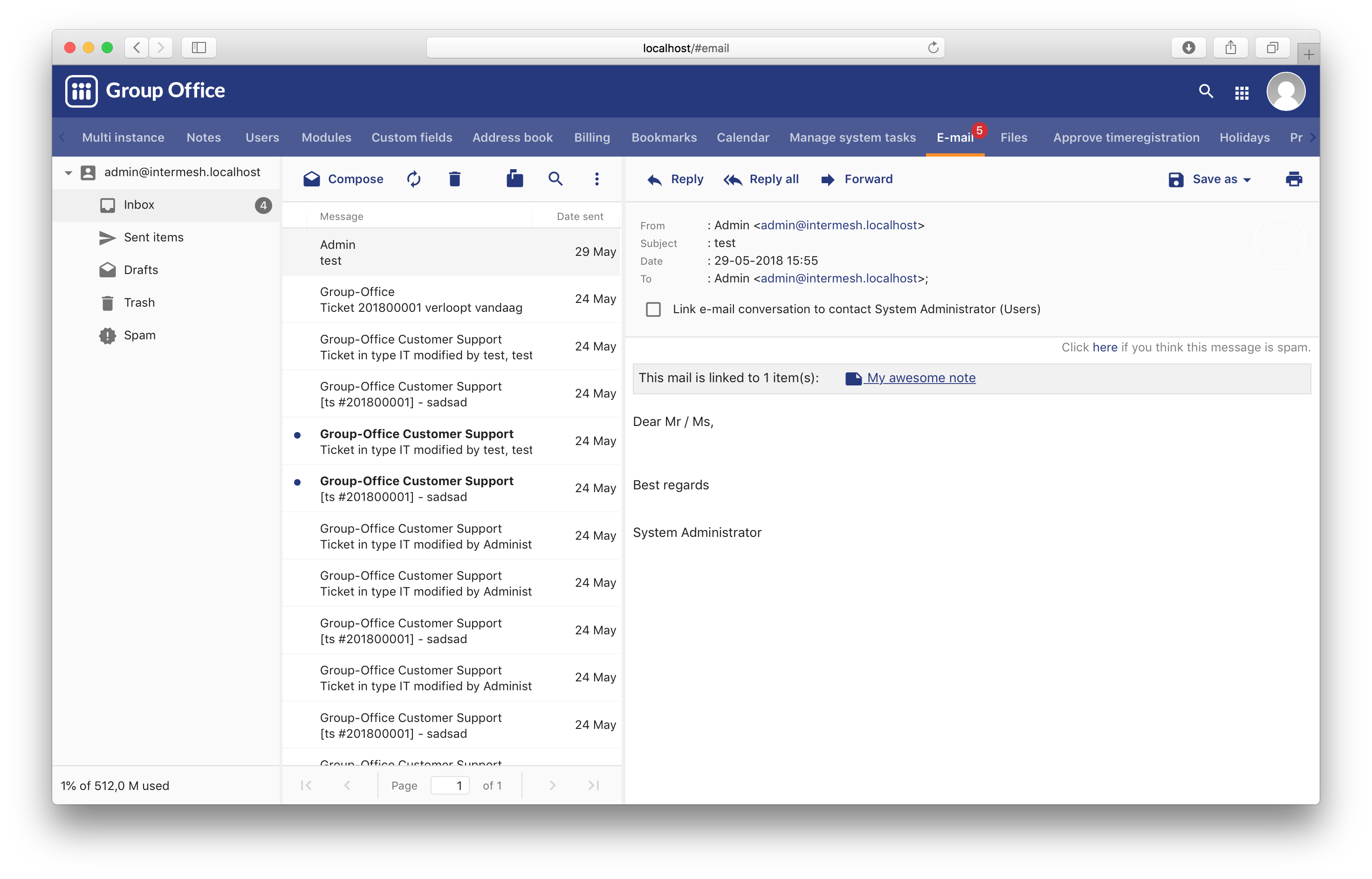 Group-Office E-mail in 6.3